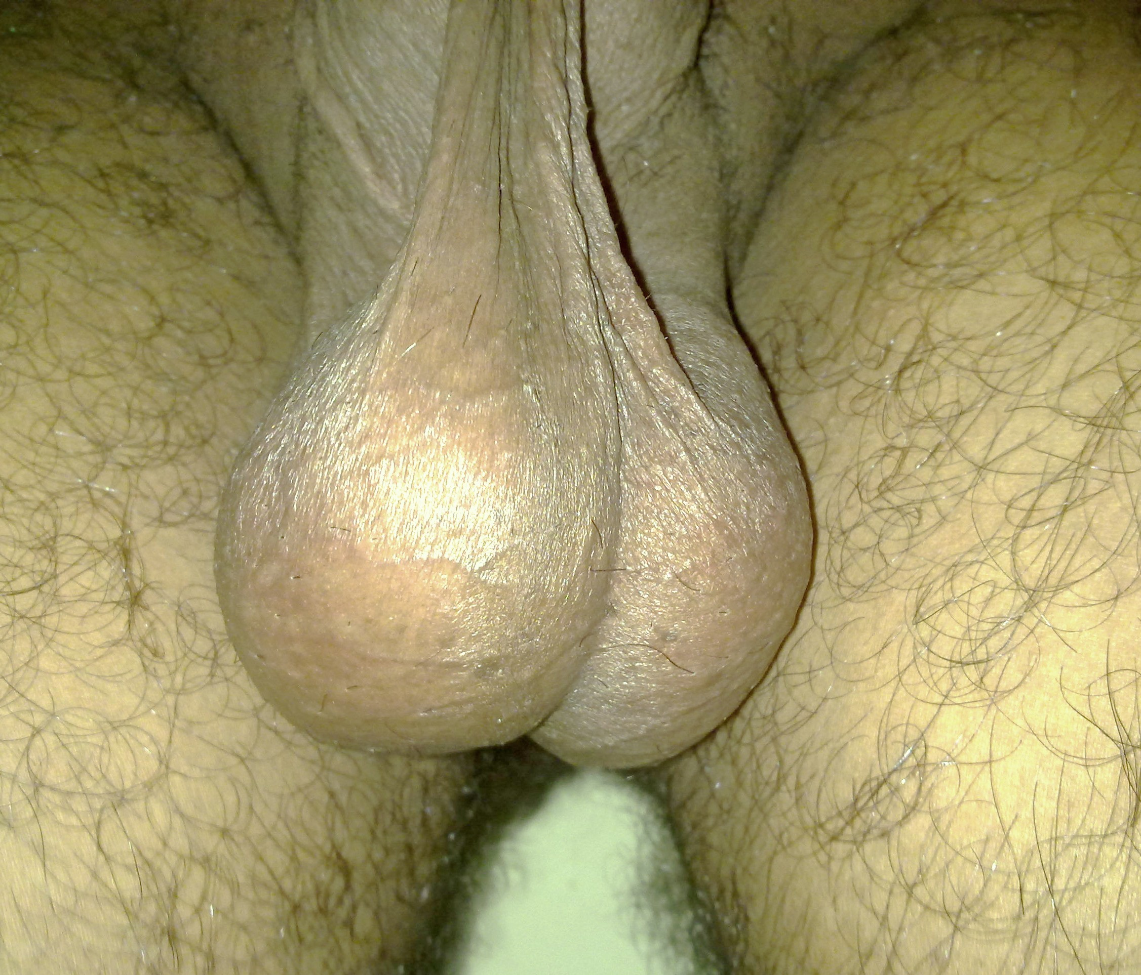 Human scrotum sac relaxes and contracts according to ambient temperature. Here the sac is relaxed showing the full size of the testes.